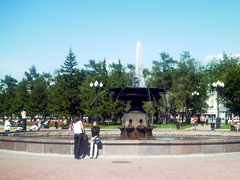 Fountain at Kirov's square